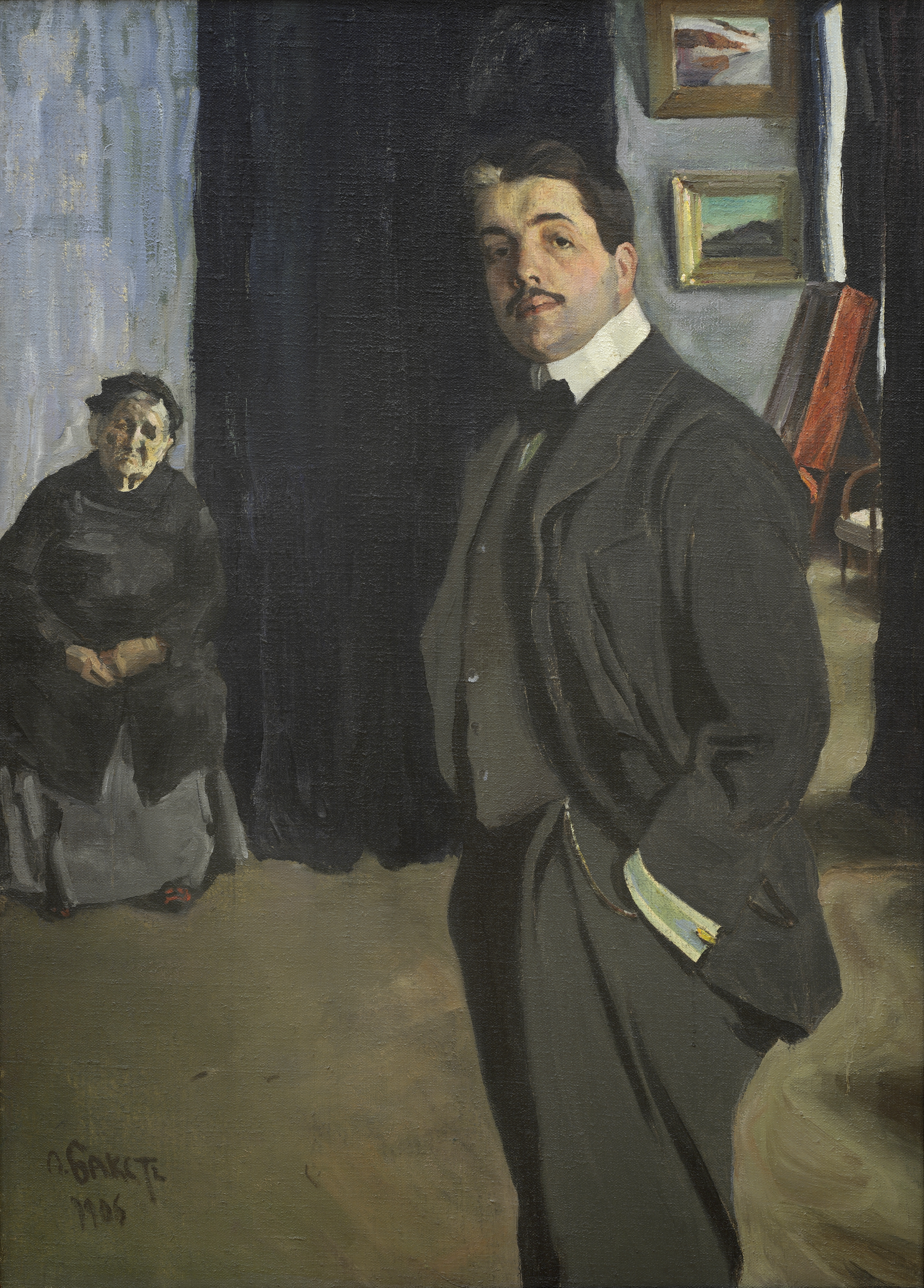 Sergei Diaghilev(1872-1929) and his nurse.